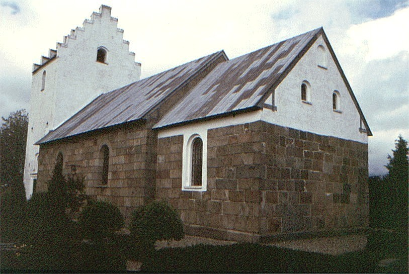 Gassum Kirke (church) in Randers Kommune. From apr. 1150